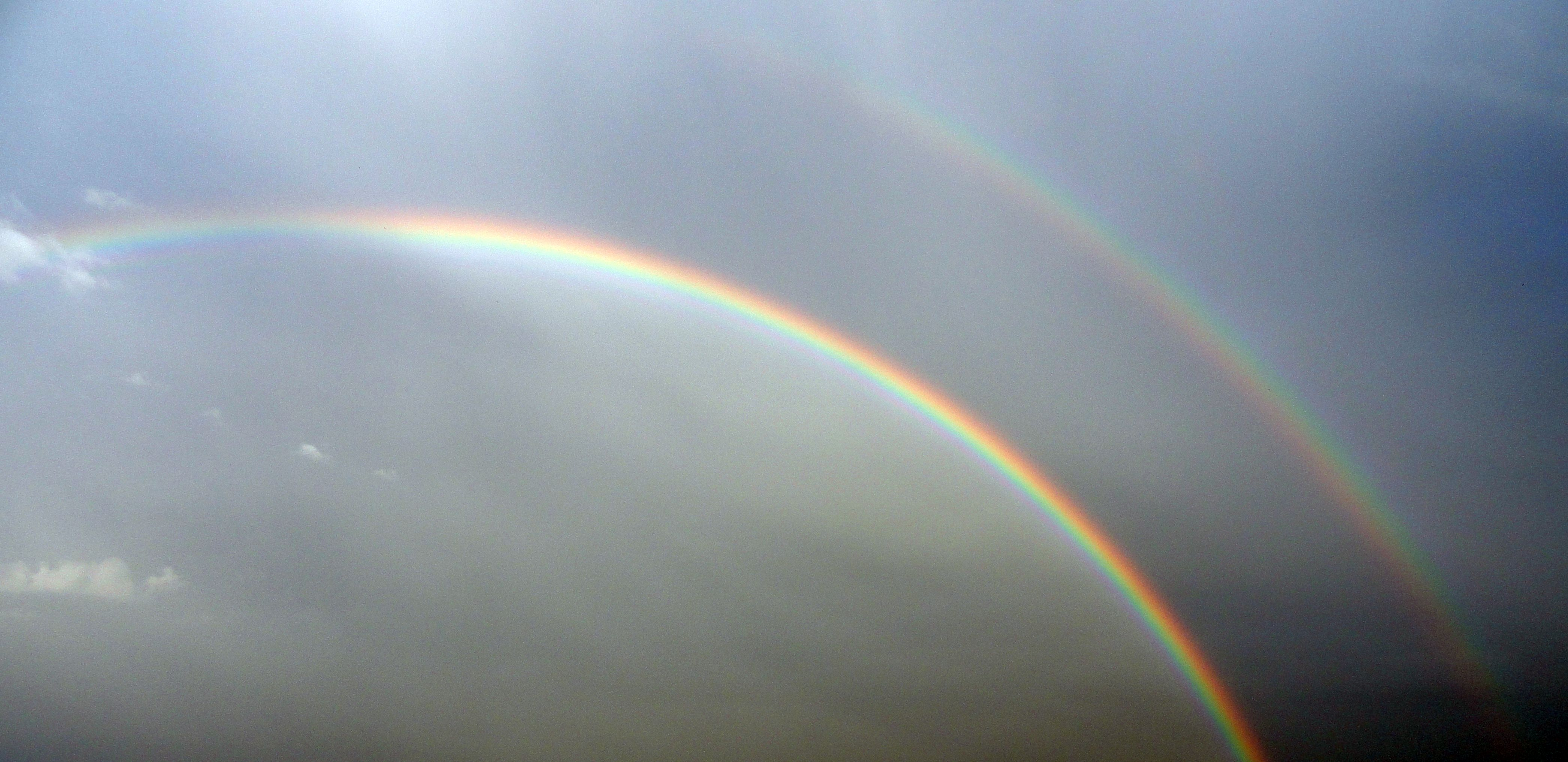 A double rainbow fotografed in Karlsruhe on July 22, 2011.